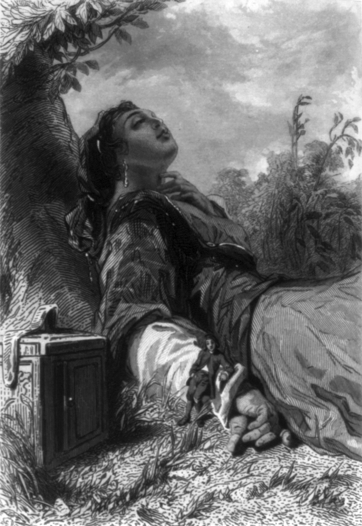 Gulliver and Glumdalclitch, from an 1850s French edition of Gulliver's Travels